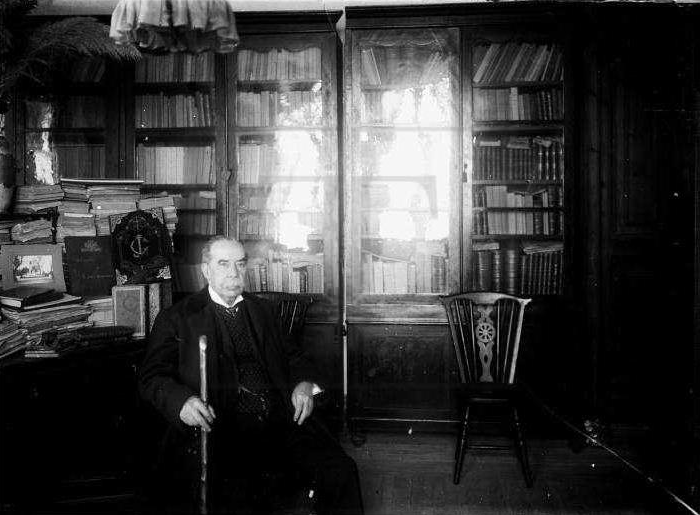 Councilman José Luciano de Castro (1834-1914) in his study.